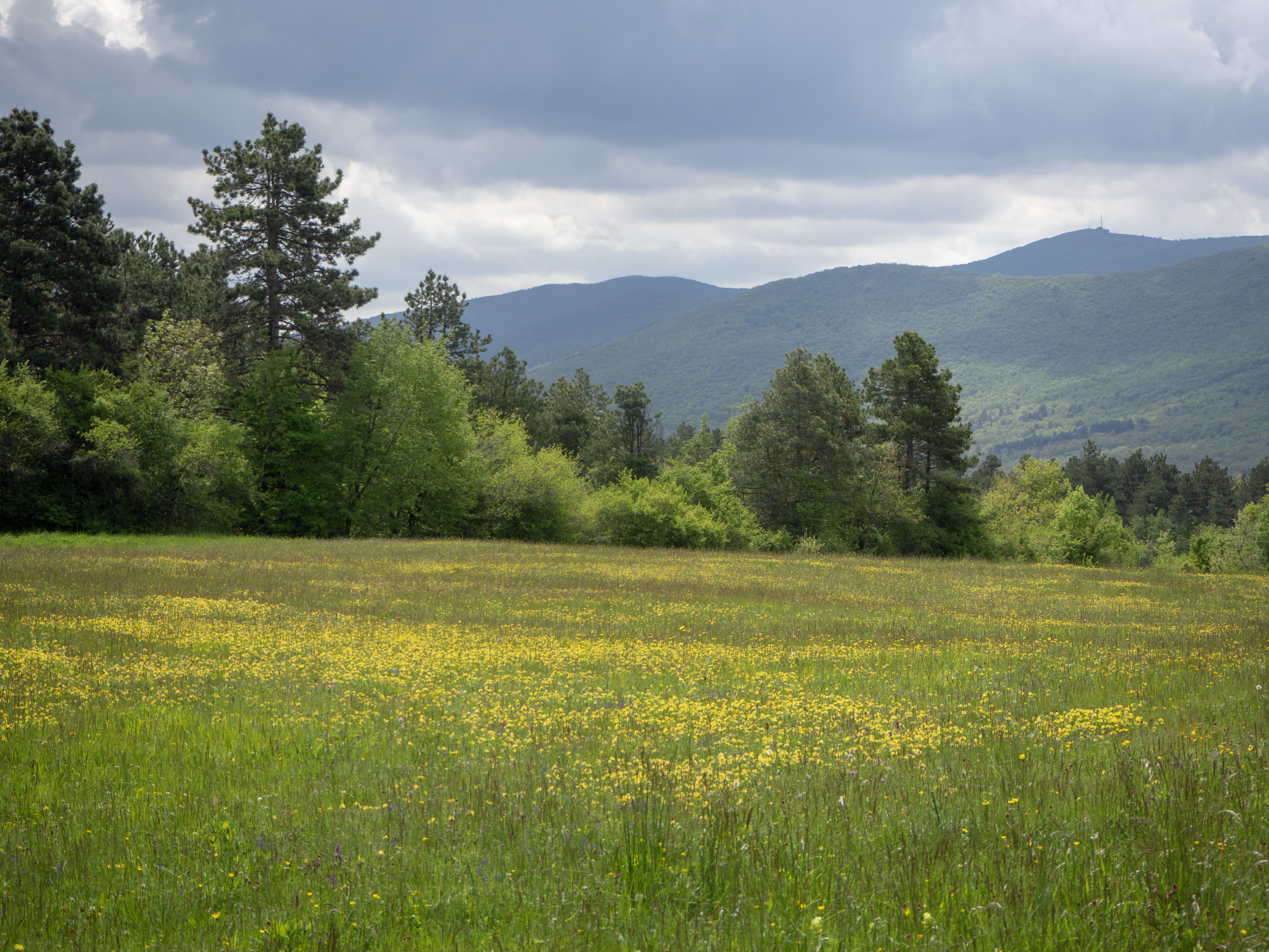 Walking near the village of Slope in Slovenija